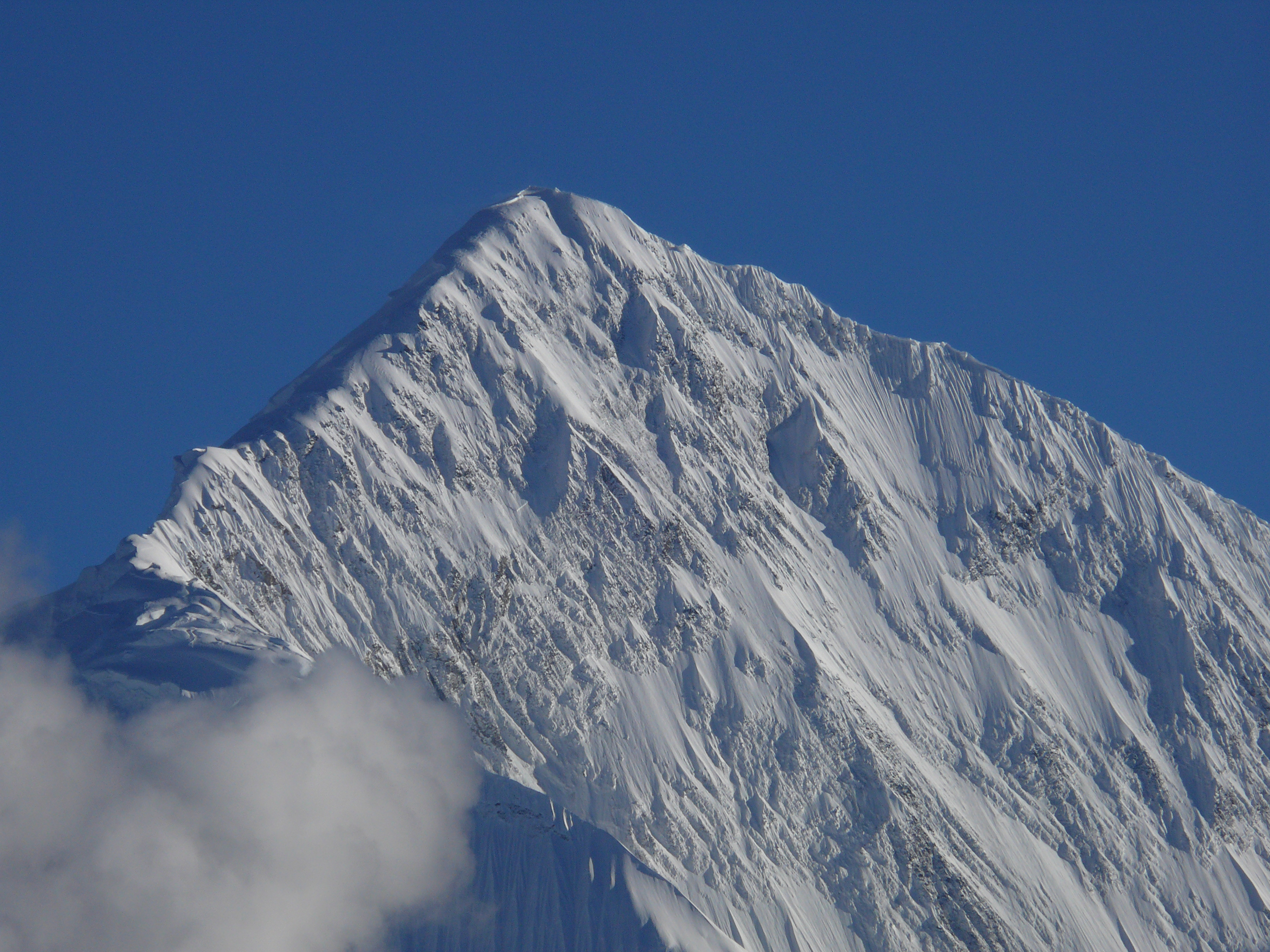 View to the Gangapurna from Thorang-Phedi